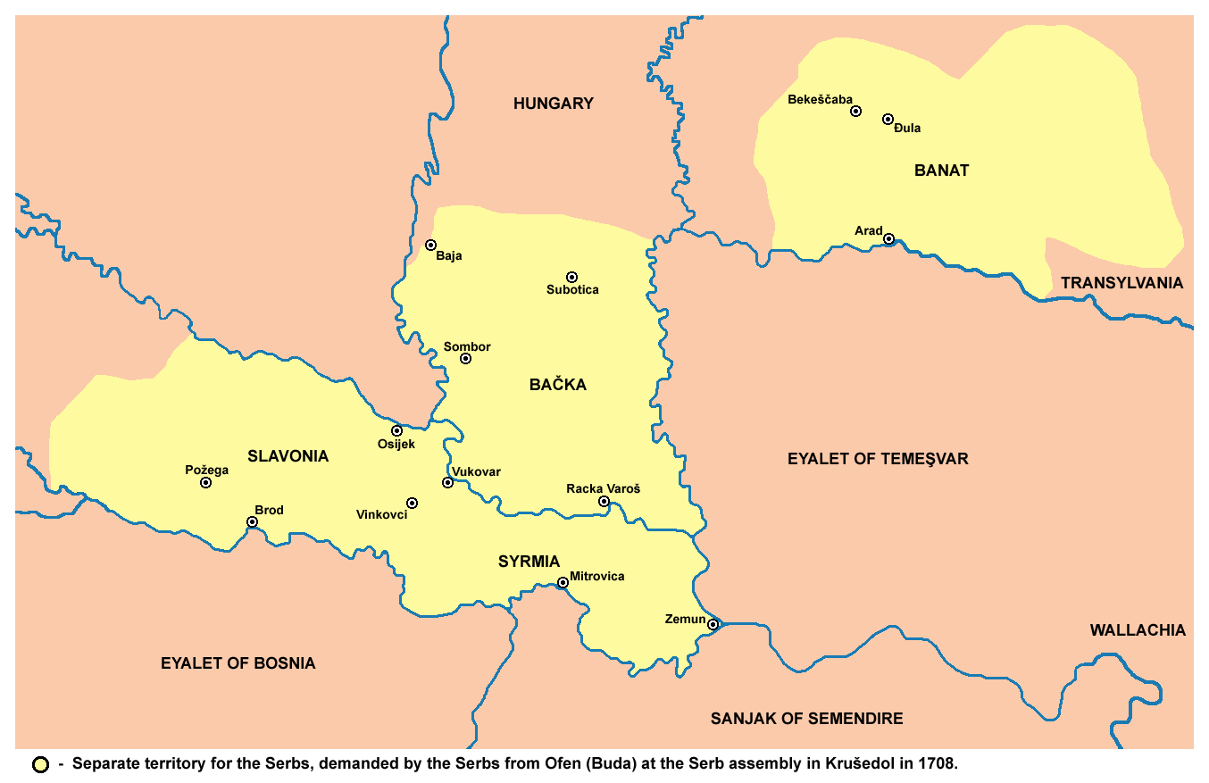 Separate territory for the Serbs, demanded by the Serbs from Ofen (Buda) at the Serb assembly in Krušedol in 1708.